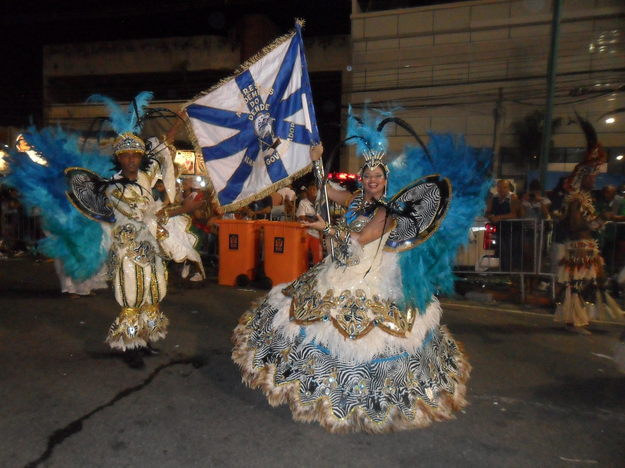 GRES Acadêmicos do Dendê